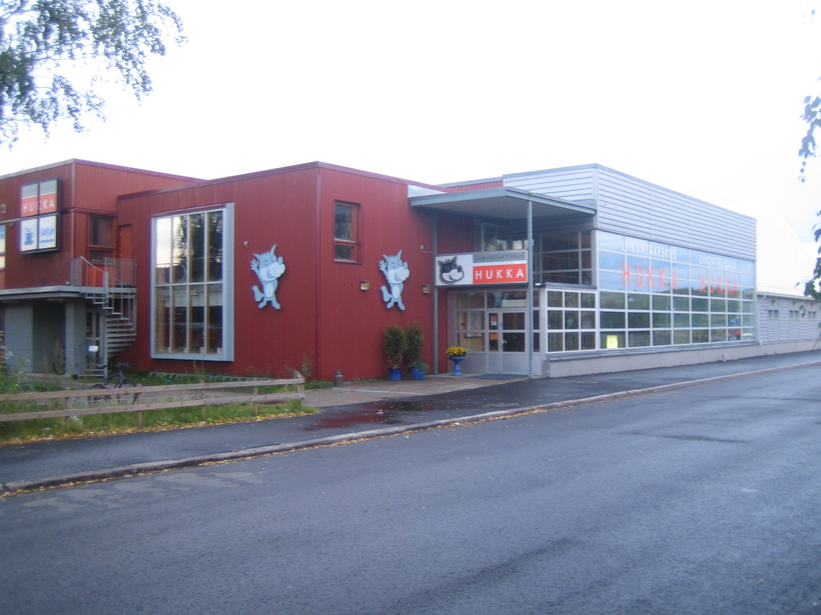 Sports centre Hukka in Oulu, Finland.